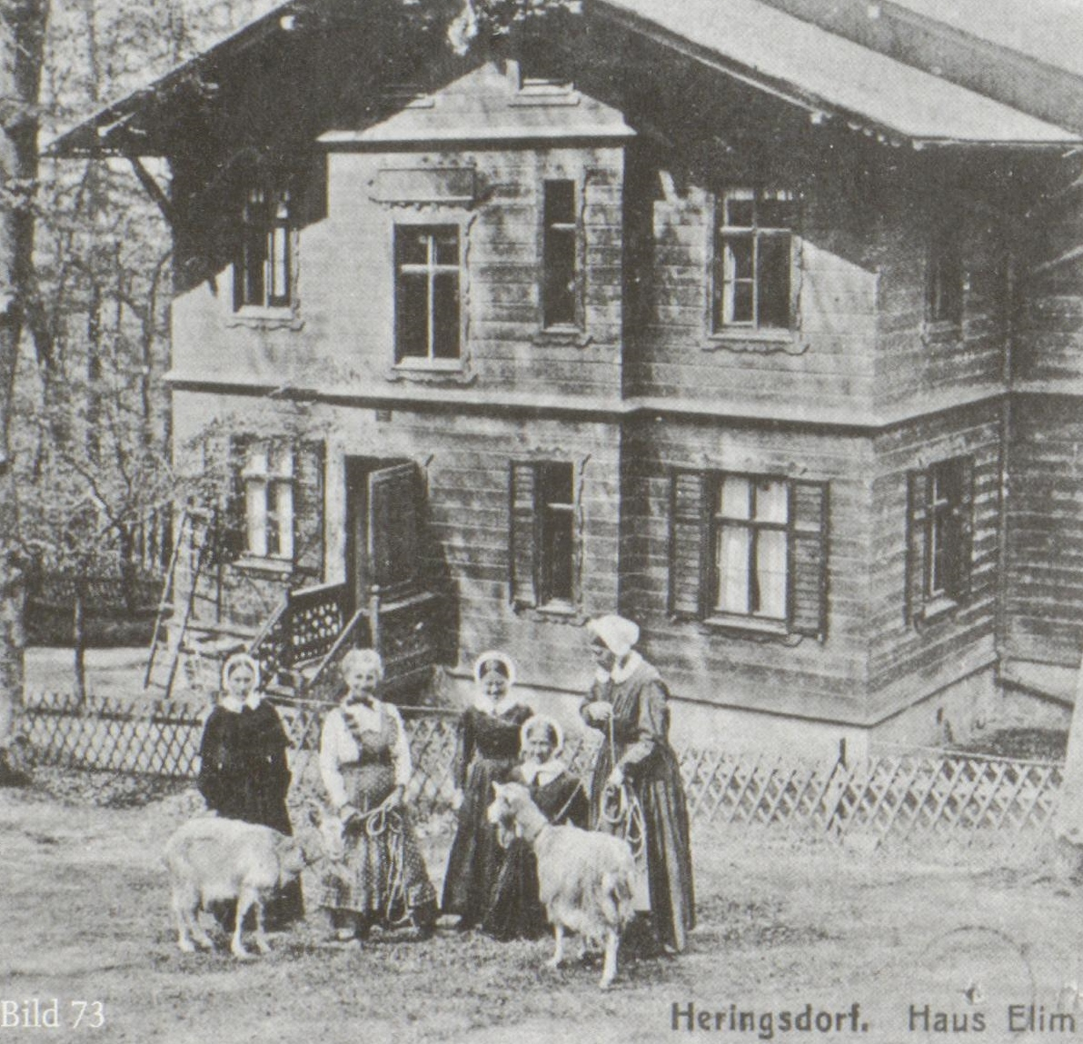 Haus Elim in Heringsdorf, vacation home for the Bethanien deaconessses, c. 1910